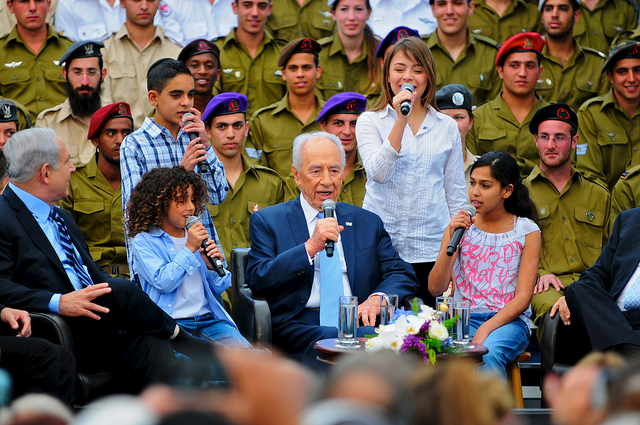 Events in Israel